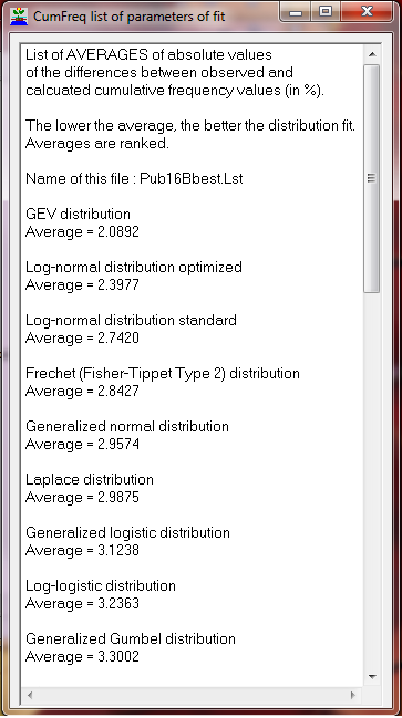 List of probability distributions ranked by goodness of fit as produced by the CumFreq model